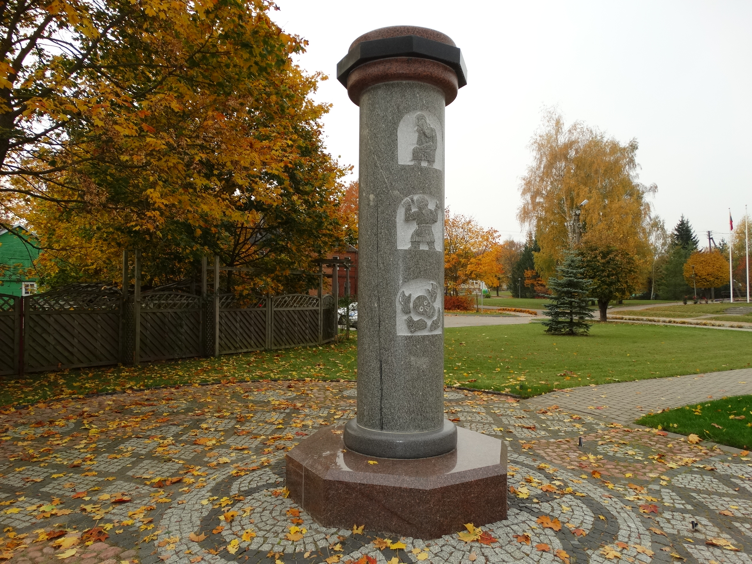 Monument, Pajevonys, Vilkaviškis District, Lithuania